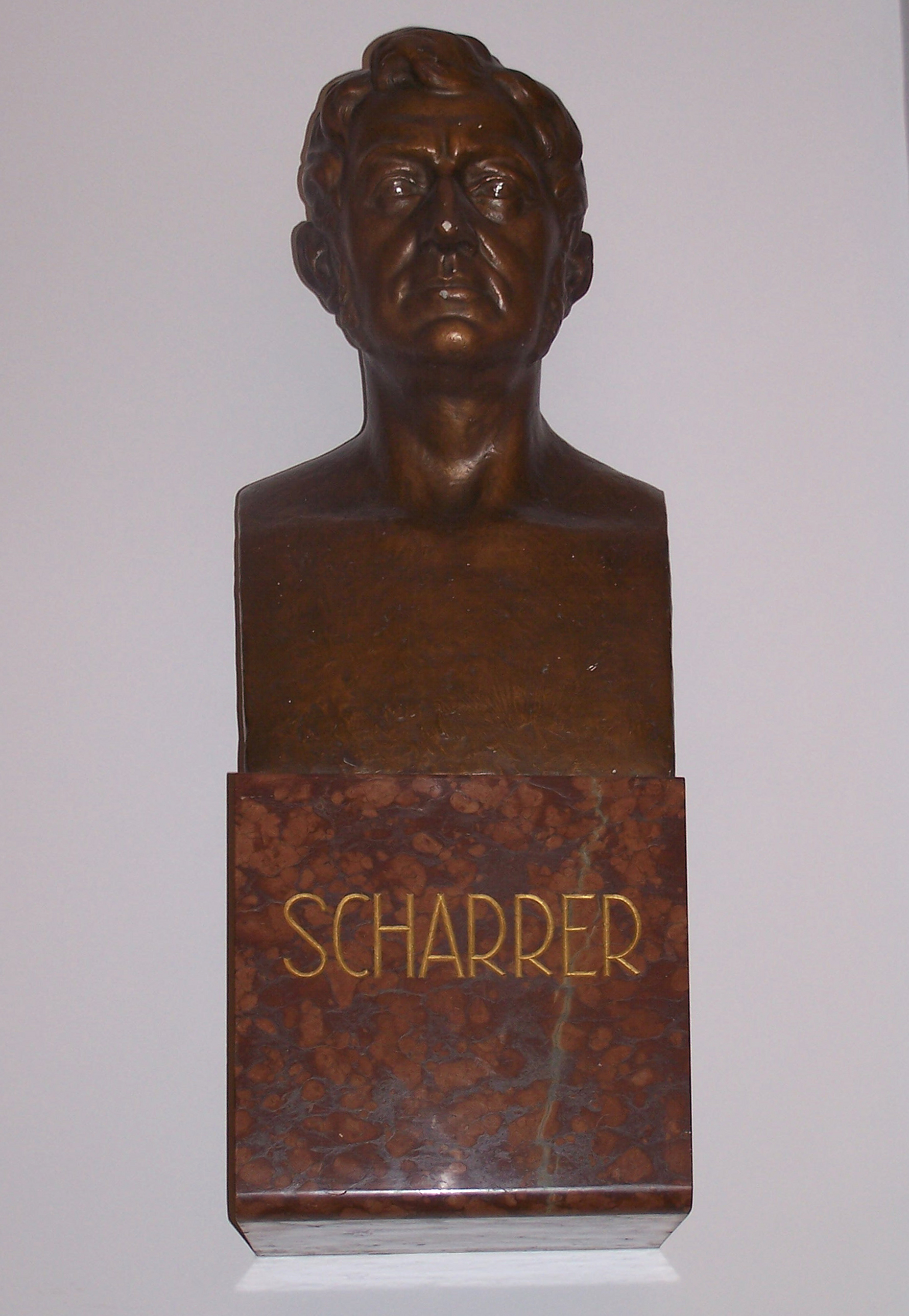 Bust of Johannes Scharrer, one of the founders of the first German railway company Bavarian Ludwig Railway of 1835, in the Transport Museum in Nuremberg